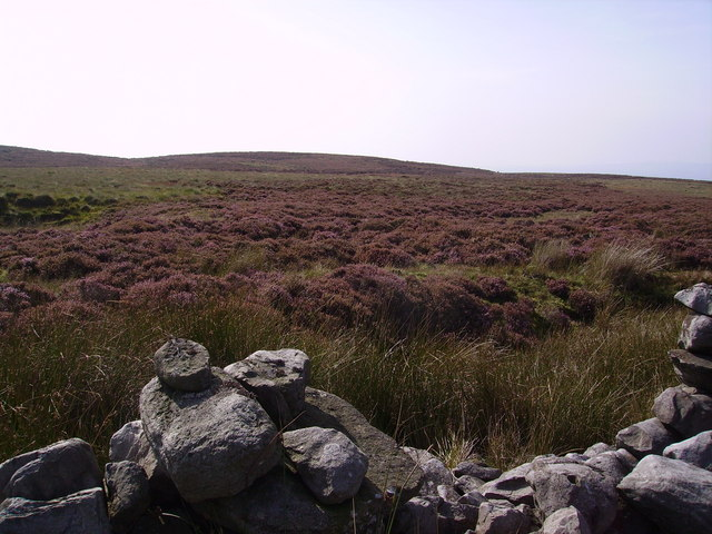 Old Wall Leck Fell. From the north east corner looking into the square.